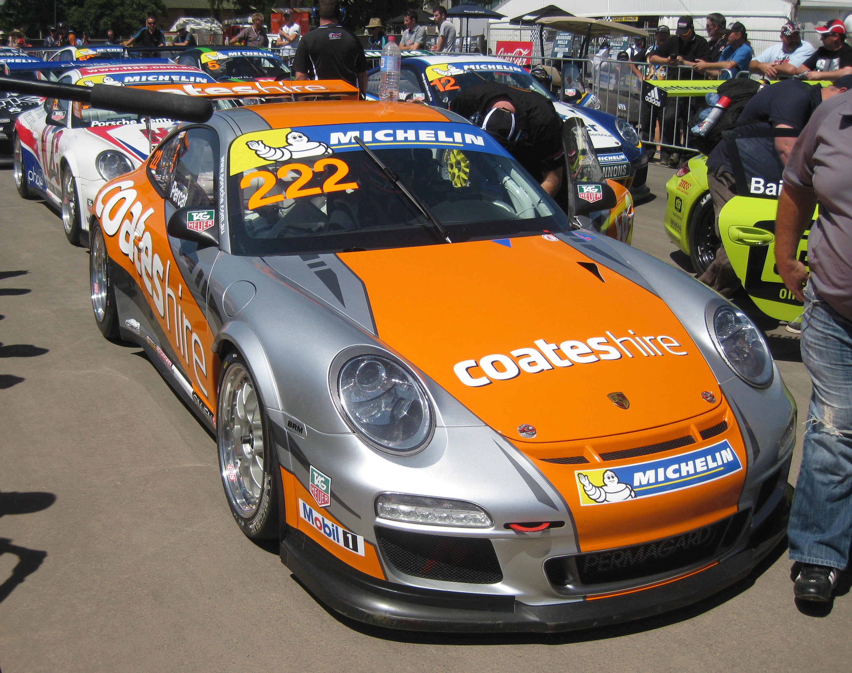 The Porsche 911 GT3 Cup Type 997 of Nick Percat at the Adelaide round of the 2013 Australian Carrera Cup Championship